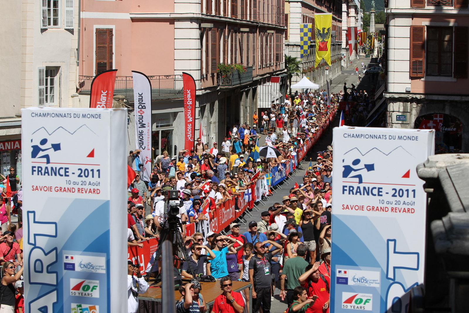 Start area on Sprint (WOC 2011)